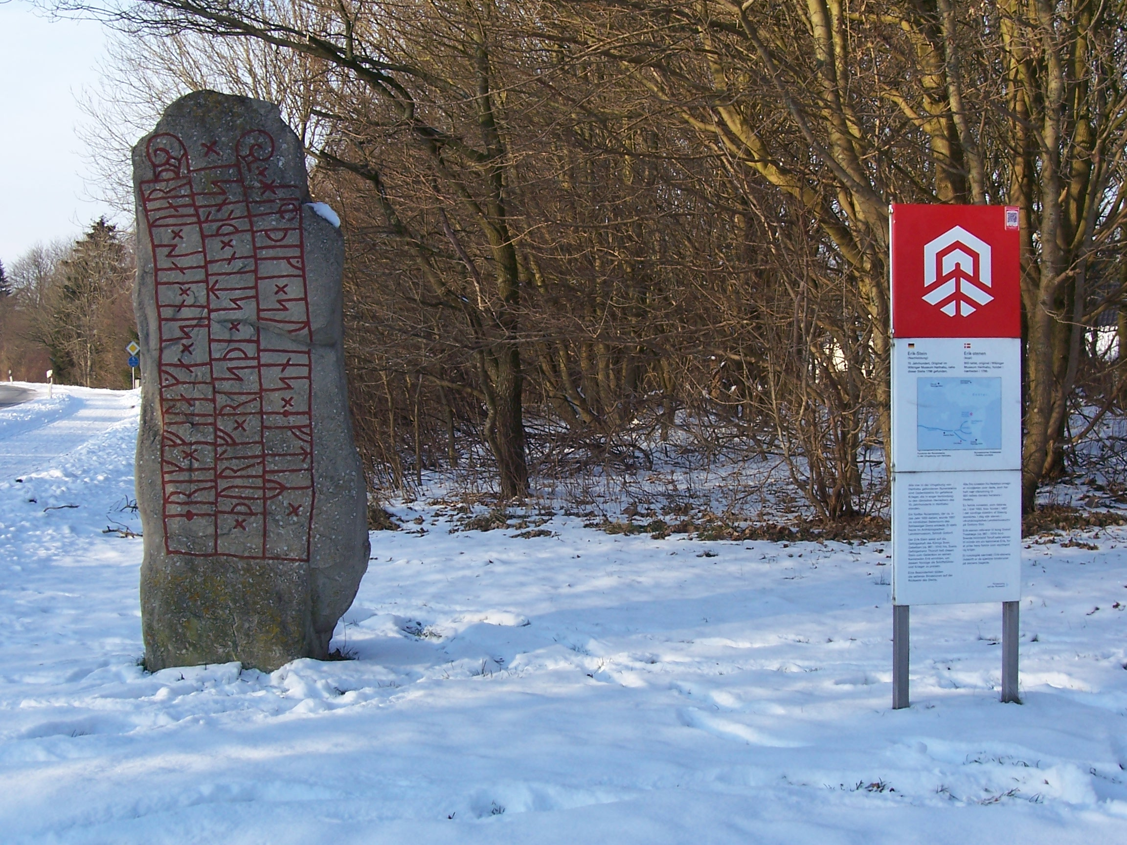 Replica of the Eric stone from Haithabu/Hedeby. The inscription is: Þórulfr reisti stein þenna, heimþegi Sveins, eptir Eirík, félaga sinn, er varð dauðr, þá drengjar sátu um Heiðabý; en hann var stýrimaðr, drengr harða góðr